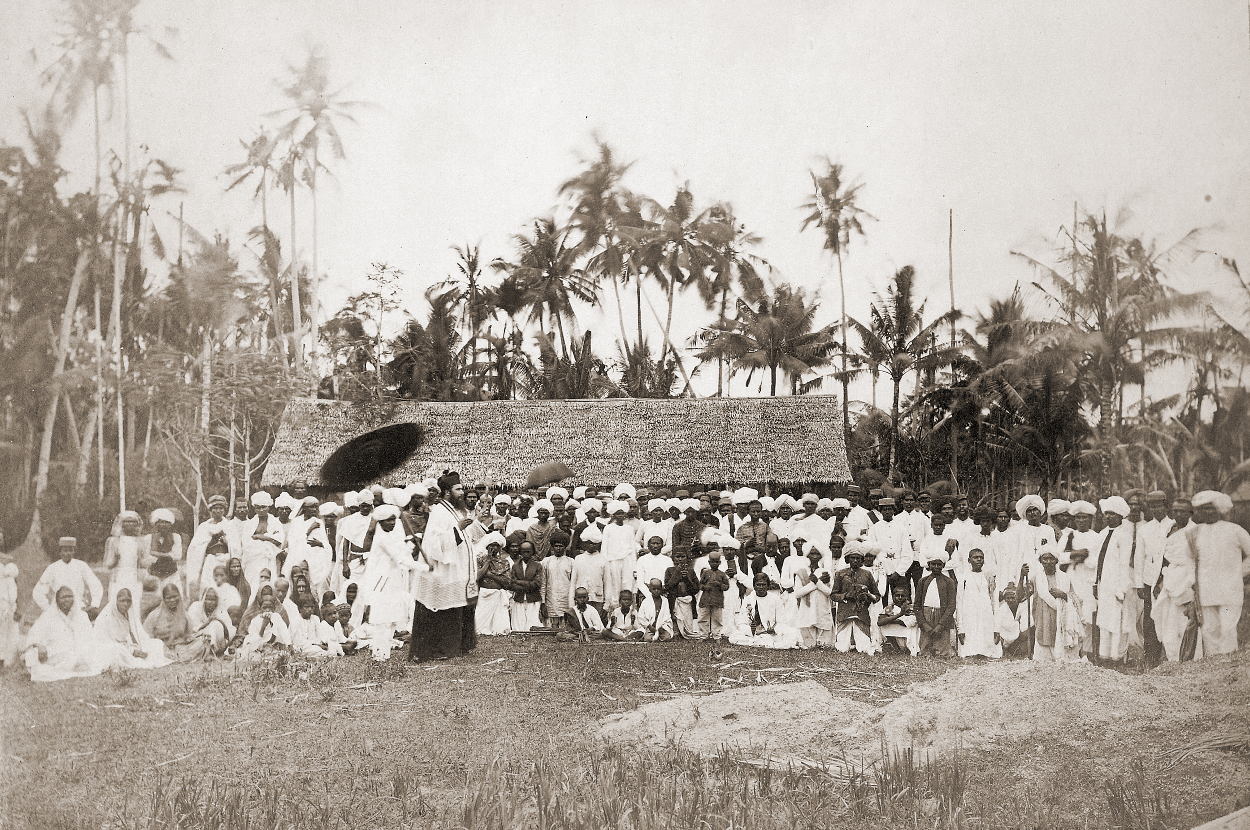 The Rev. Habb preaching to the Klings (South Indians) in Penang. Photograph by Danish photographer Kristen Feilberg in 1867. Was exhibited in the 1867 Paris Exhibition